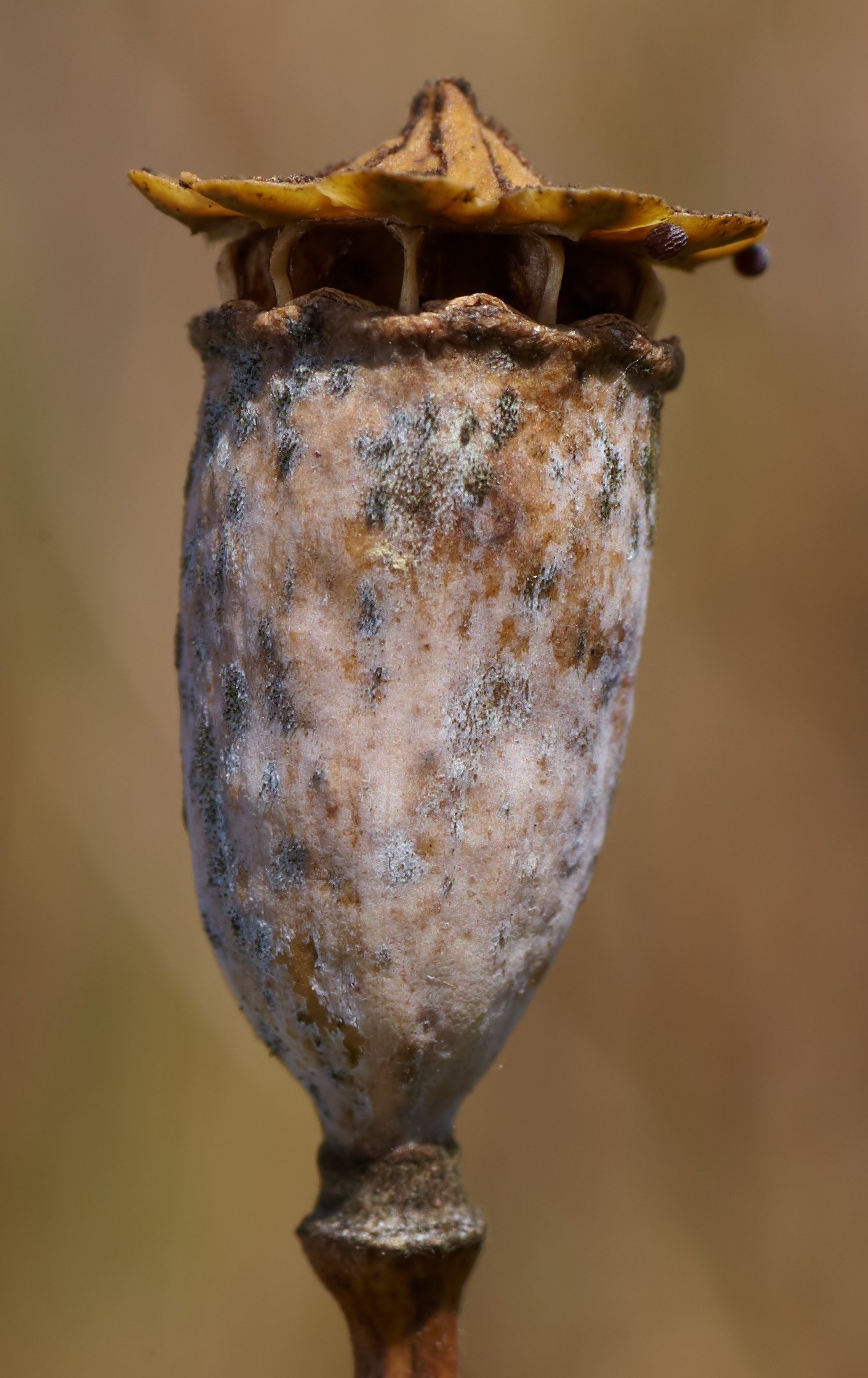 Capsule of Papaver rhoeas